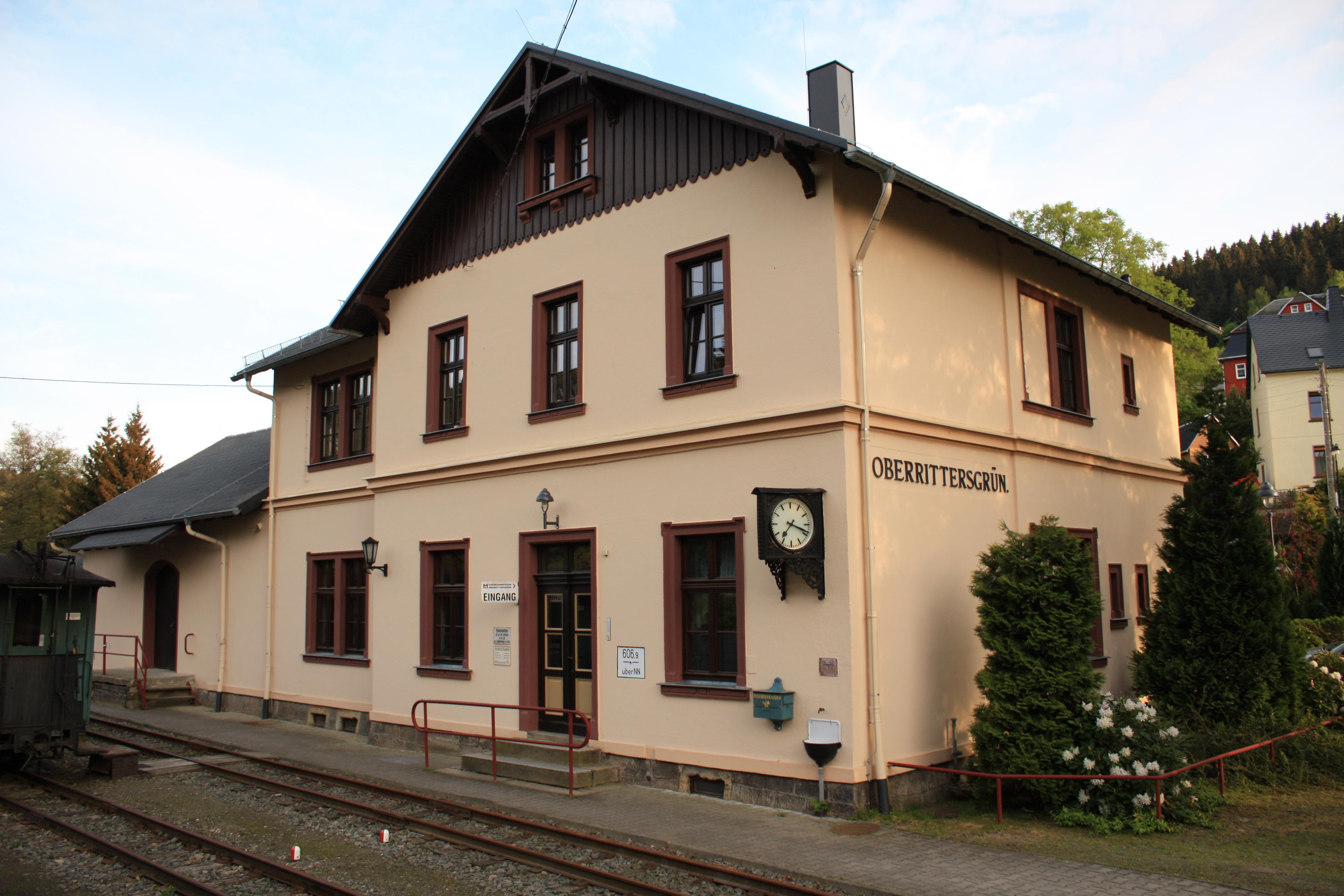 Rittersgrün Station